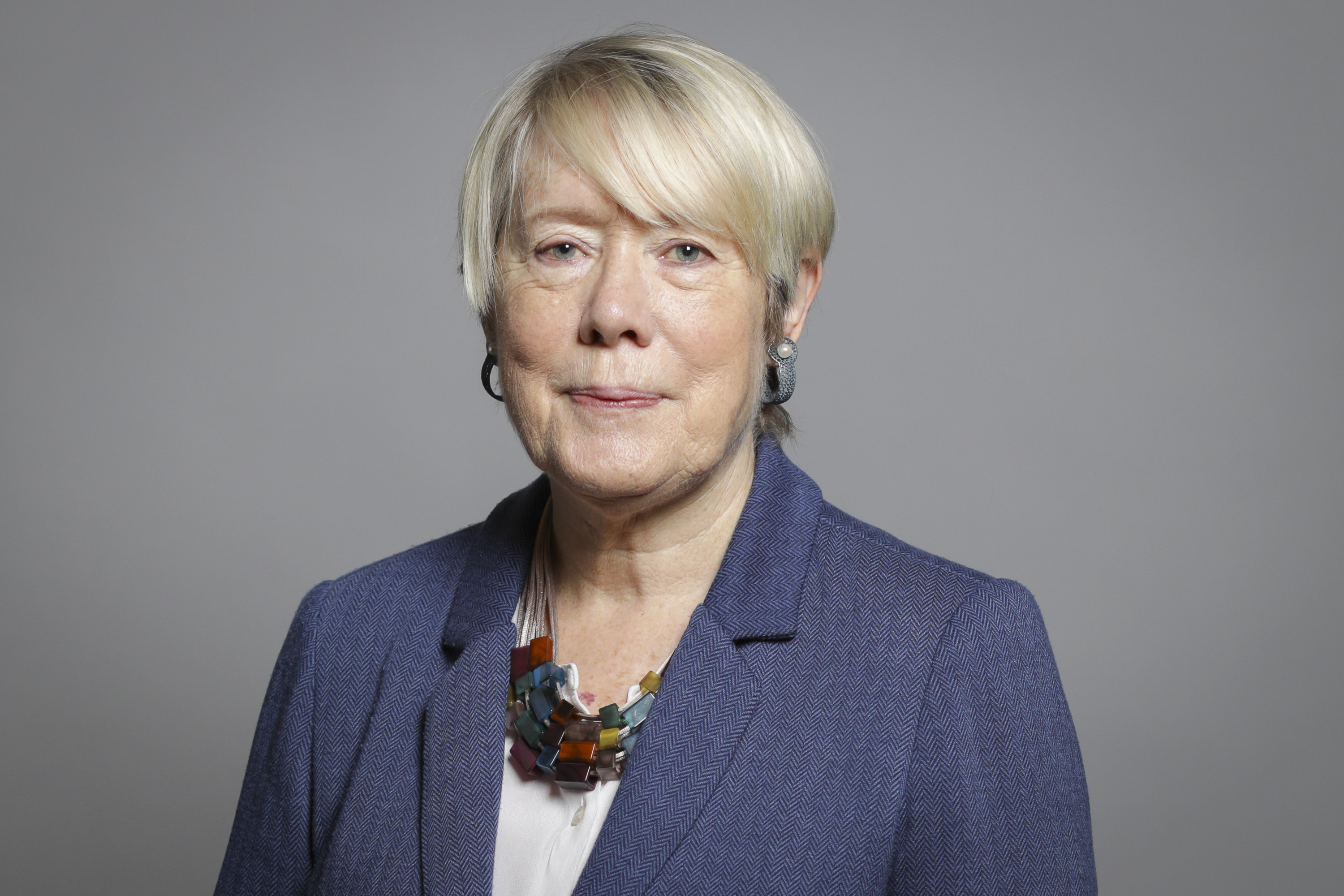 Official portrait of Baroness Bryan of Partick 3×2 portrait of Baroness Bryan of Partick